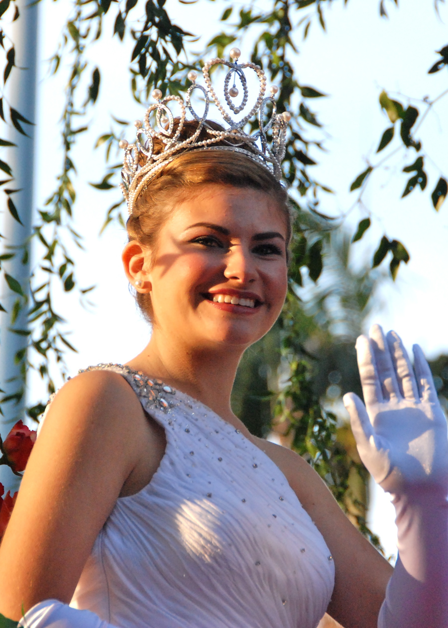 my photo of the 2010 Rose Parade Queen Natalie Innocenzi